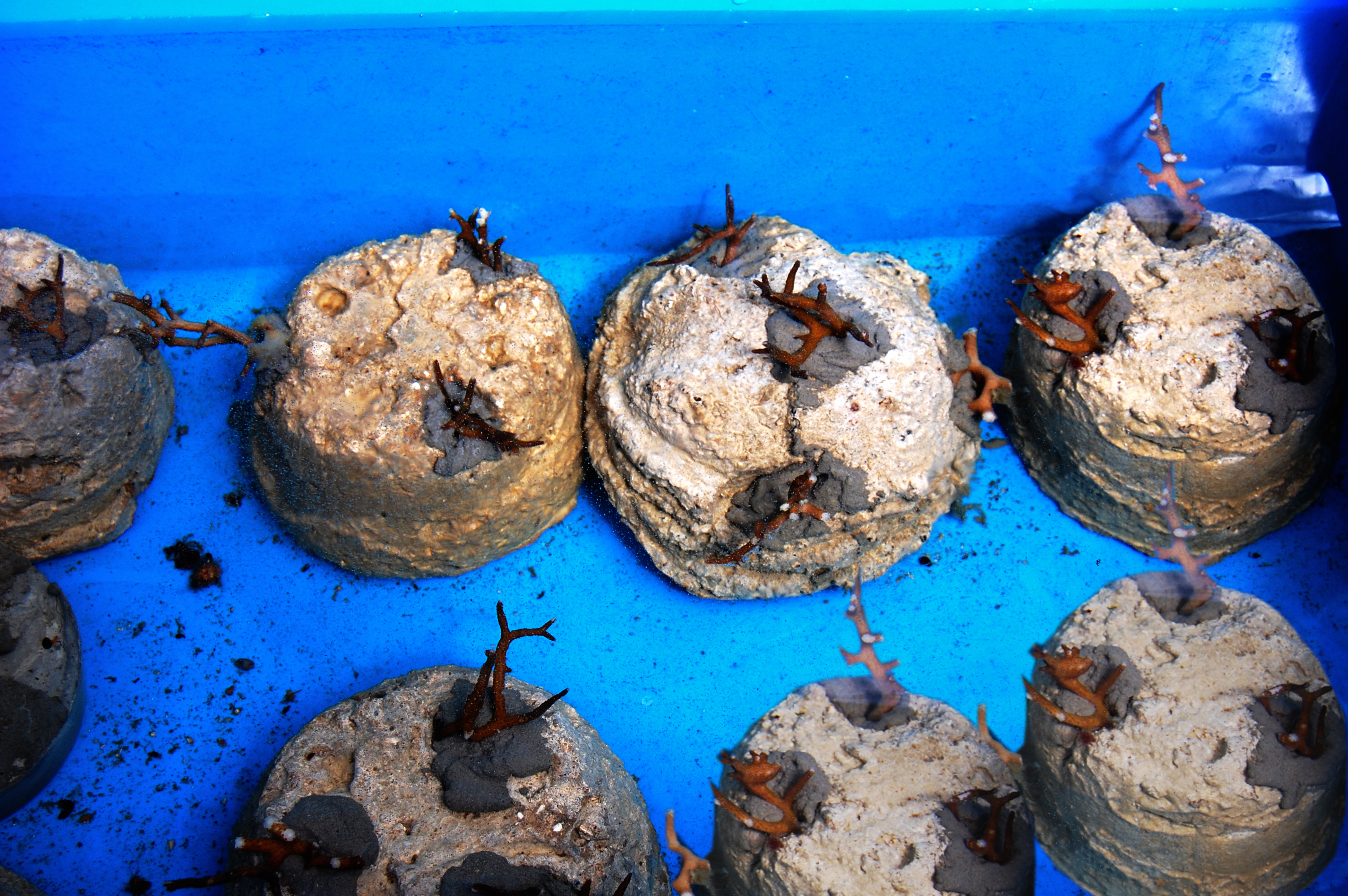 coral nubbins replanted in non toxic cement at the Green Connection